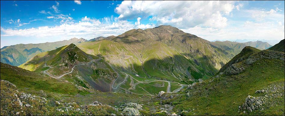 Abano pass